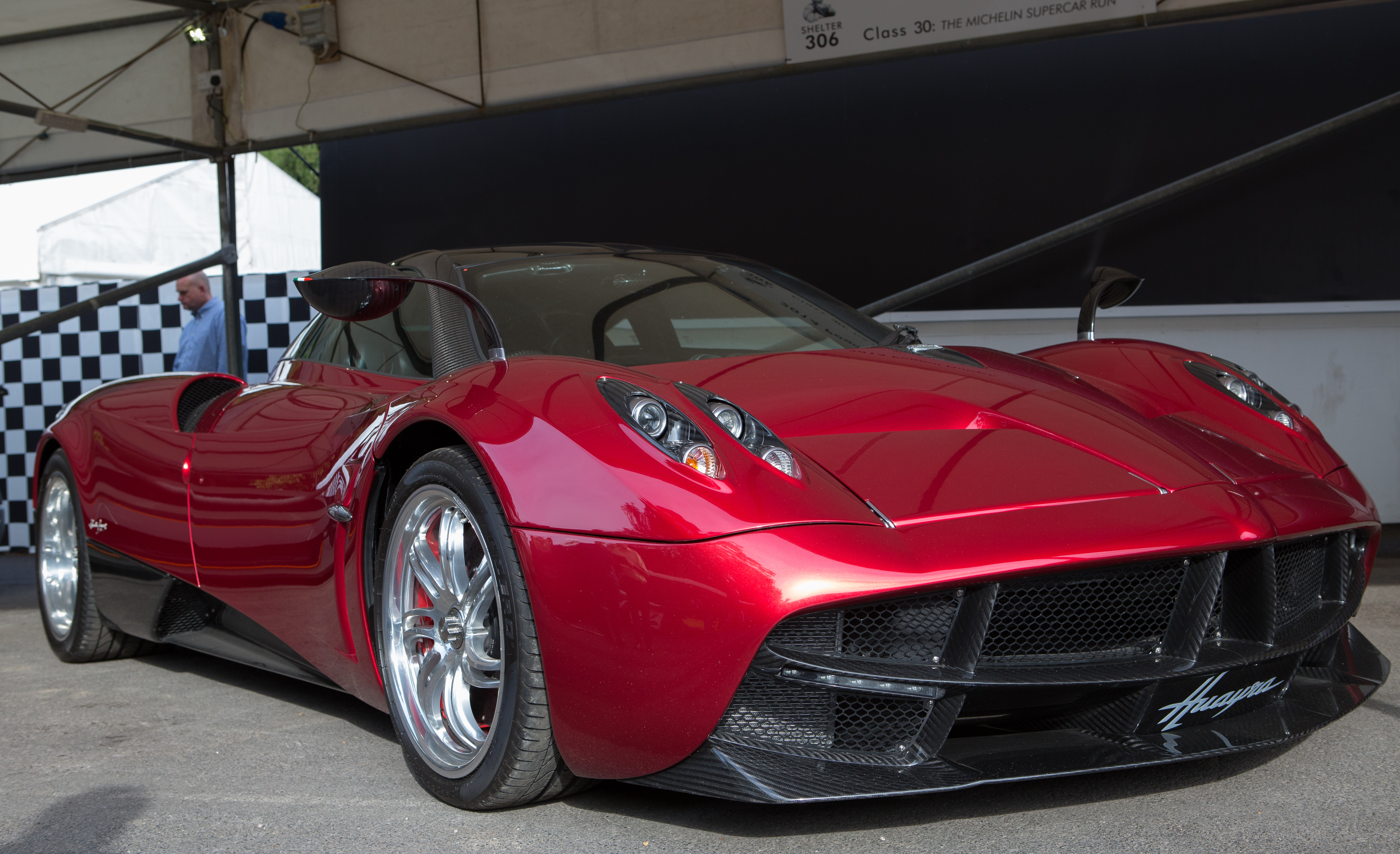 The Pagani Huayra at the 2014 Goodwood Festival of Speed.